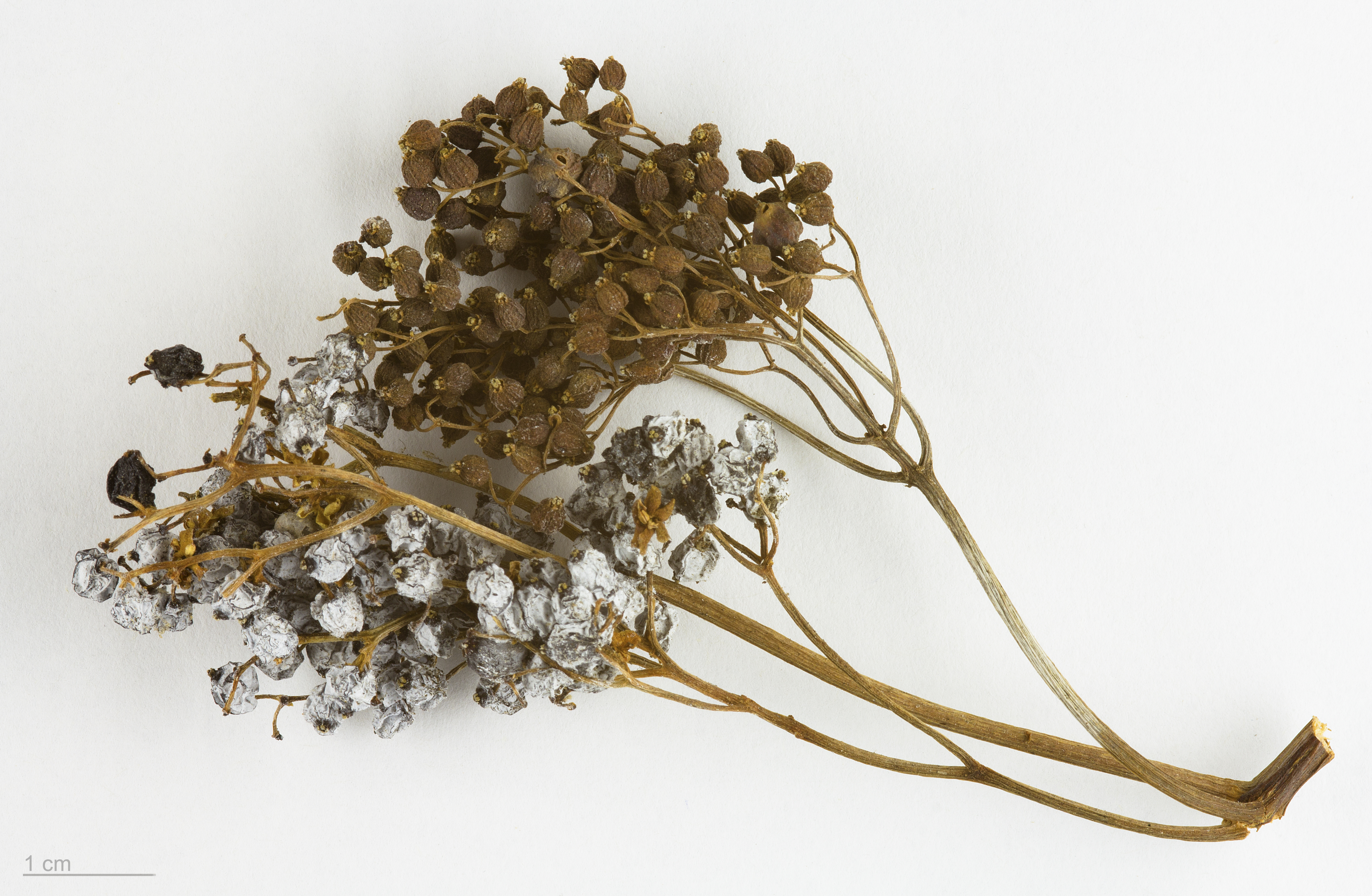 Sambucus cerulea, Blue elderberry, fruits